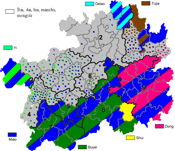 Autonomies in Guizhou